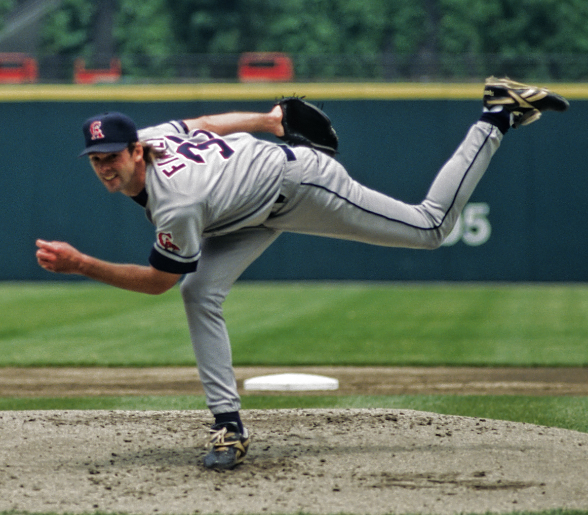 The California Angels meet the Cleveland Indians in a game @ Jacobs Field on June 8, 1996. The pitcher is Chuck Finley. Check out the box score @